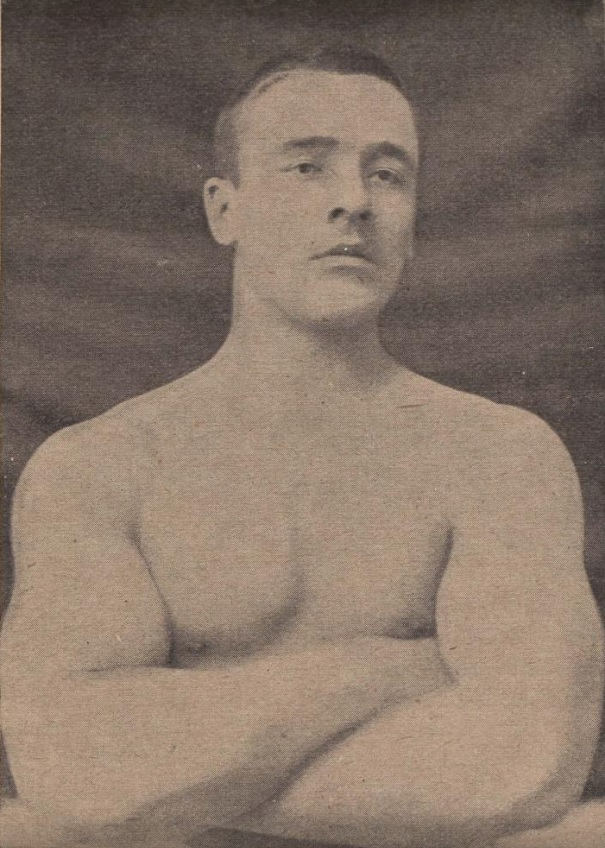 Stanislaus Zbyszko in gimnasium